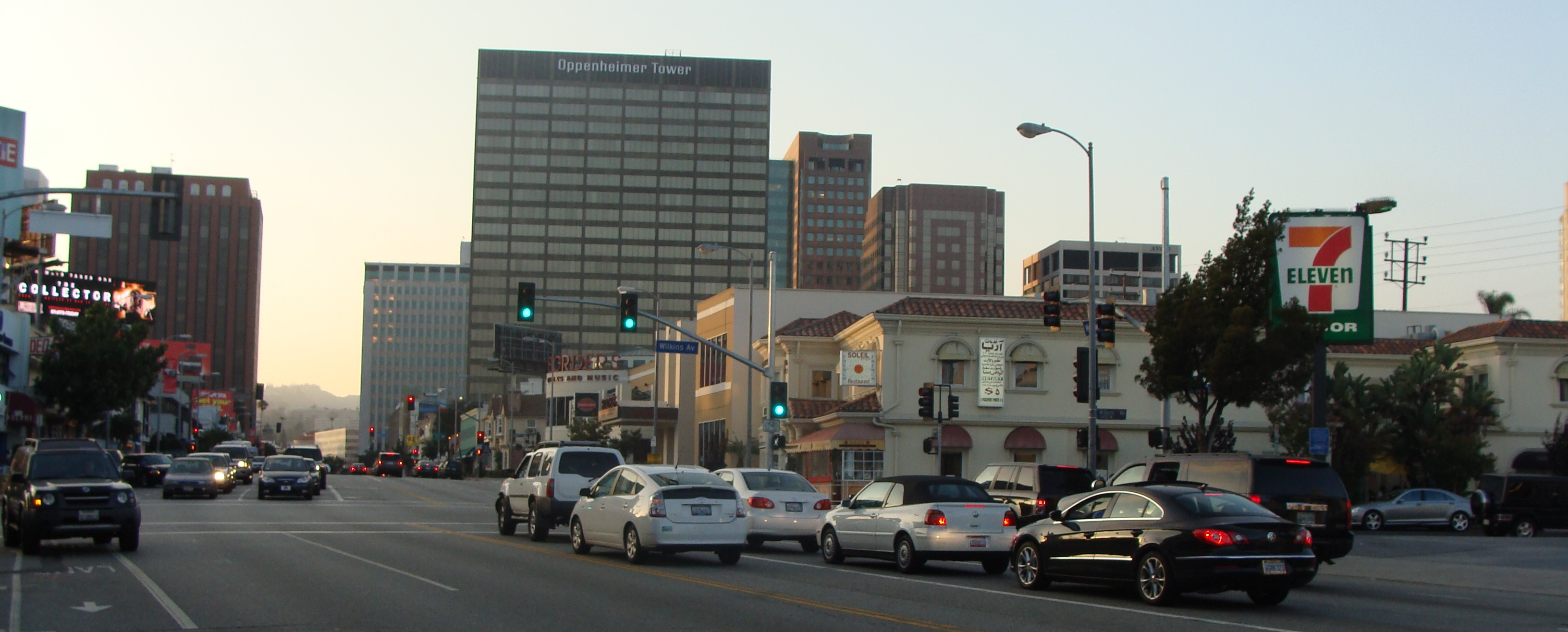 Tehrangeles, Westwood Blvd, Los Angeles.